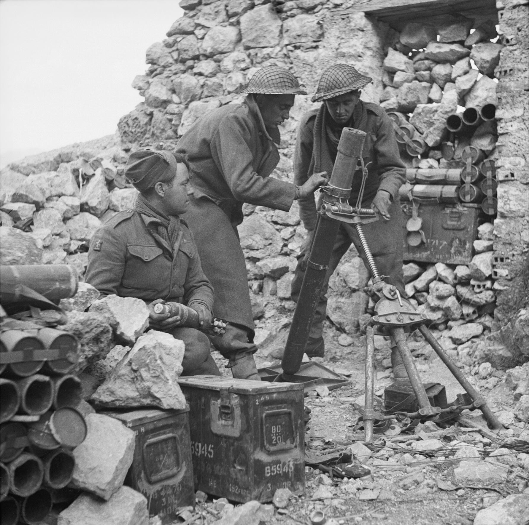 Men of the 6th Battalion, Royal West Kent Regiment man a 3-inch mortar on Monastery Hill, Cassino, Italy, 26 March 1944. Second Phase 15 February - 10 May 1944: Men of the 6th Battalion Royal West Kent Regiment man a 3 inch mortar on Monastery Hill.